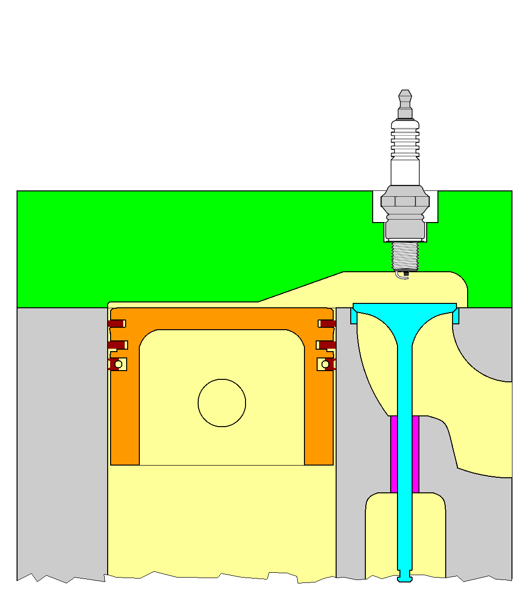 Simplified illustration of a side-valve engine with a common L-head valve arrangement.